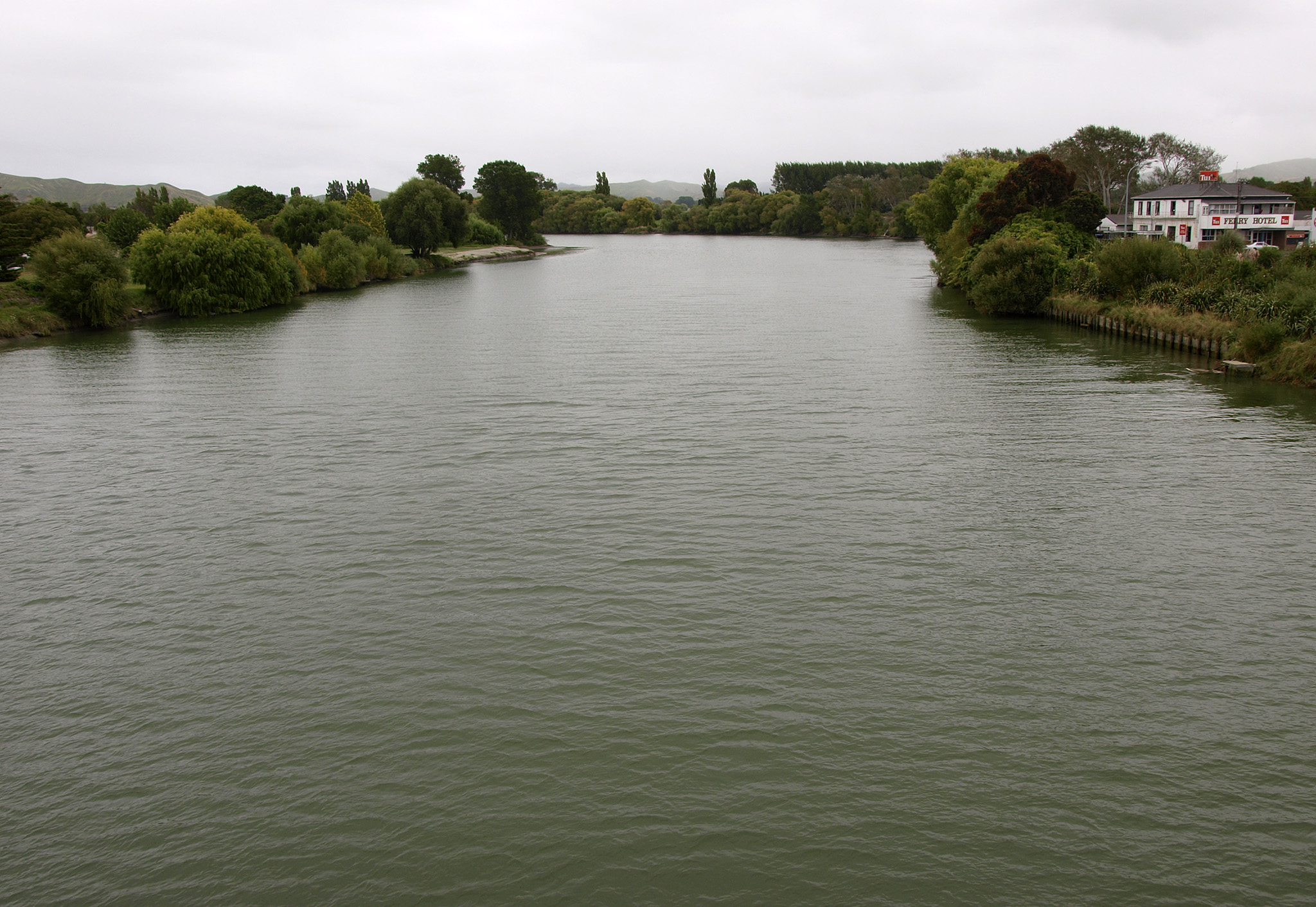 Wairoa River, Hawke's Bay Region, New Zealand.